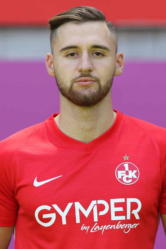 Lukas Gottwalt (Nr. 28)